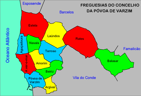 Povoa de Varzim_parish borders